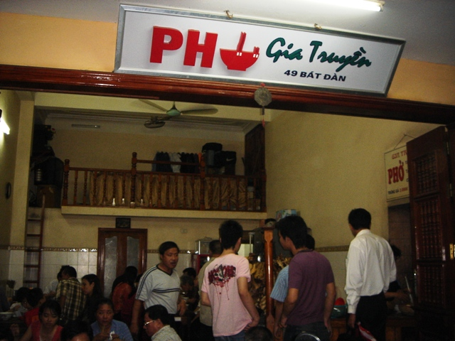 Phở Gia Truyền, one of the most famous traditional noodle restaurant in Hanoi, Hanoi.